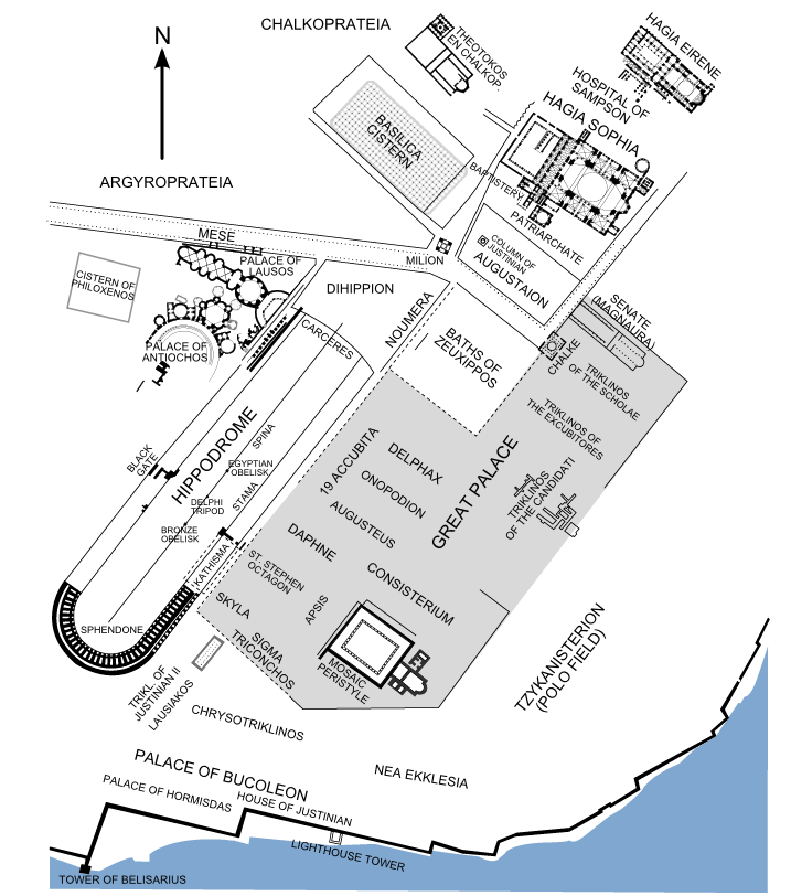 The imperial district of Byzantine Constantinople, with the Great Palace and the approximate locations of its main buildings (based on literary descriptions), the Hippodrome, the Hagia Sophia and the surrounding structures. Surviving or excavated structures are in black, the conjectural outlines of structures in grey, and the shaded portion corresponds to the area occupied by the Sultanahmet Camii and other later structures.